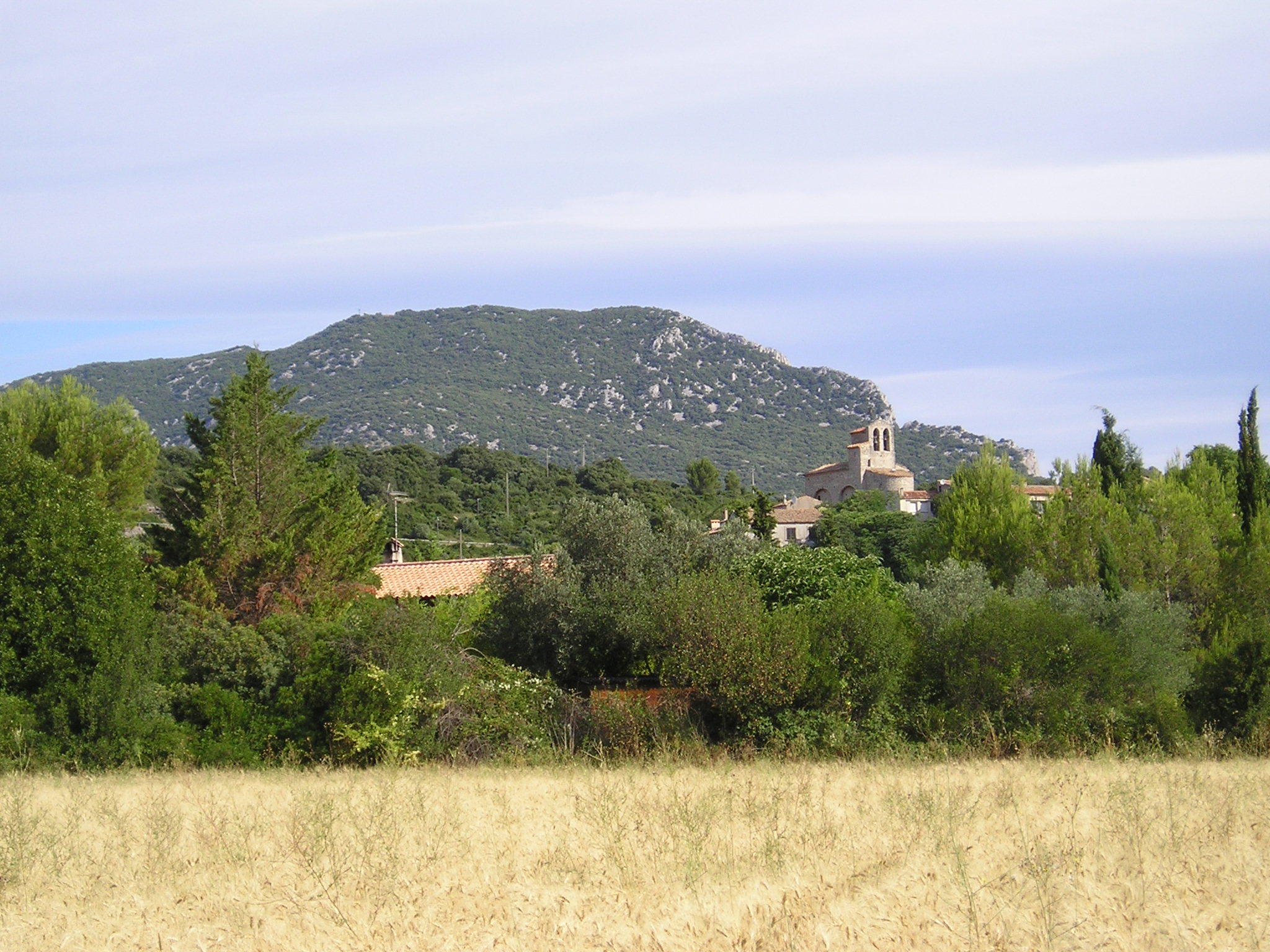 In Hérault, France, view from South-East of the Pic Saint-Loup in the background and of the town and church of Saint-Jean-de-Cuculles.